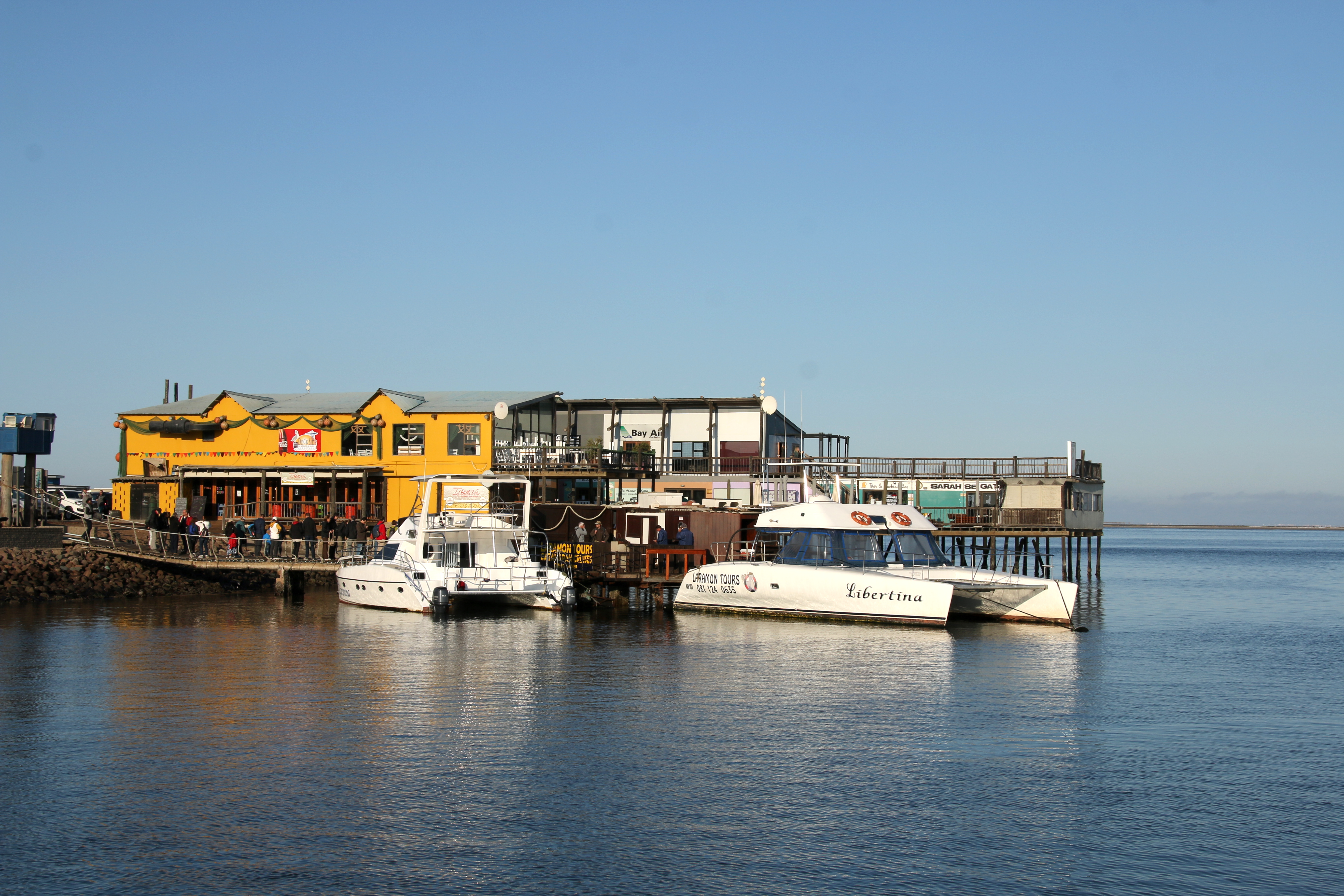 Walvis Bay Harbour (2018)